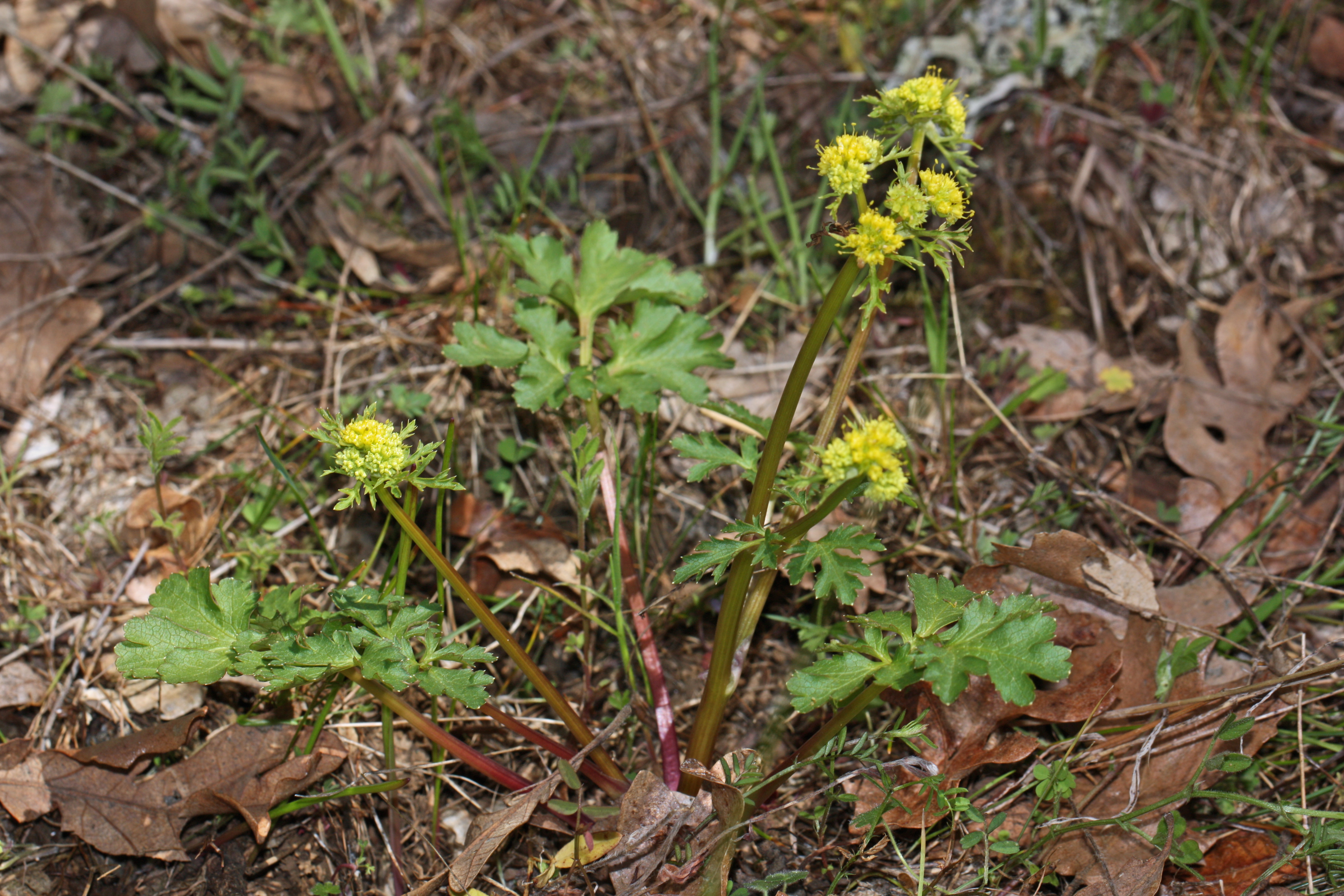 Northern Sanicle, Sierran Black-snakeroot Viewpoint location: Catherine Creek Trail (north of road), Catherine Creek Day Use Area Viewpoint elevation: 134 meter (440 ft) Location source: Garmin GPSmap 60CSx Location Datum: WGS84